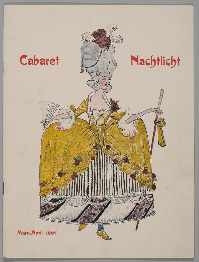 Cropped version of Caricature of the Danish dancer Gertrude Barrison (1880-1846) in connection with her appearance at Vienna's Nachtlicht night club in 1907.